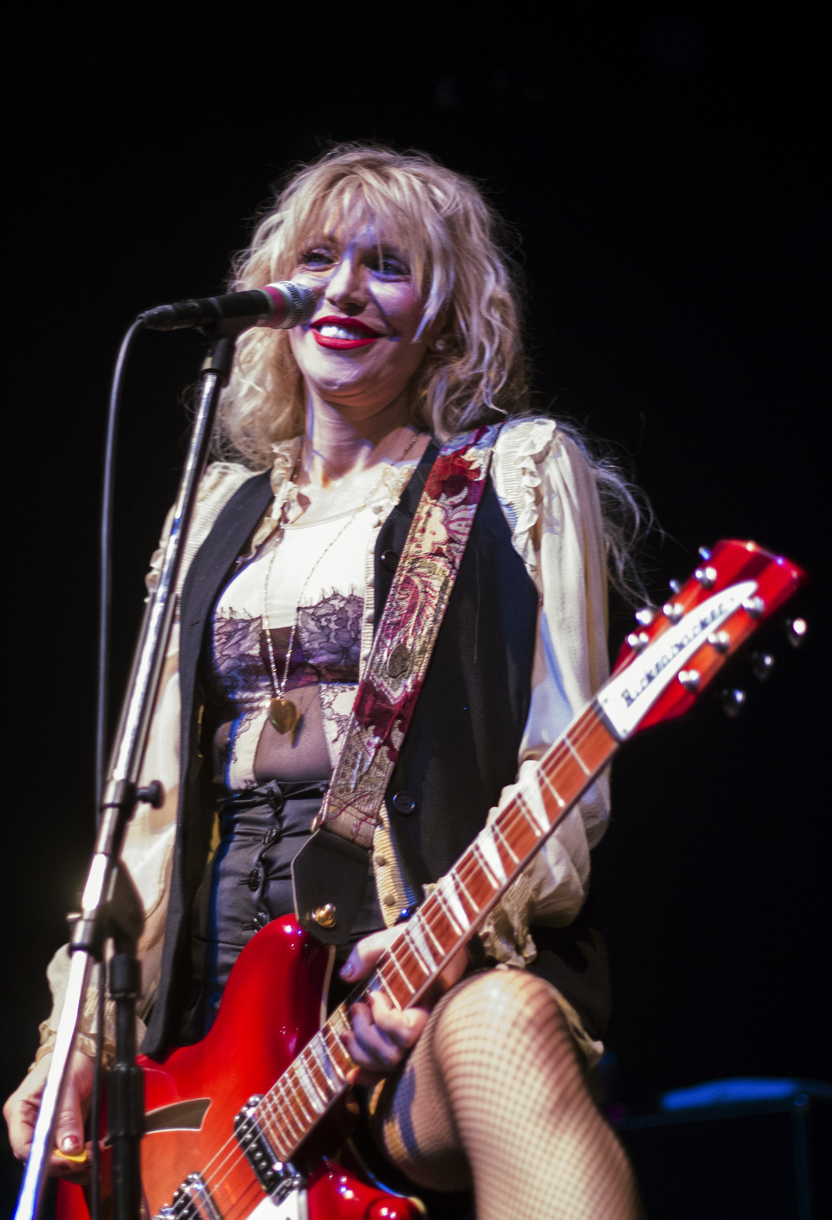 @ Majestic Ventura Theatre 5/19.